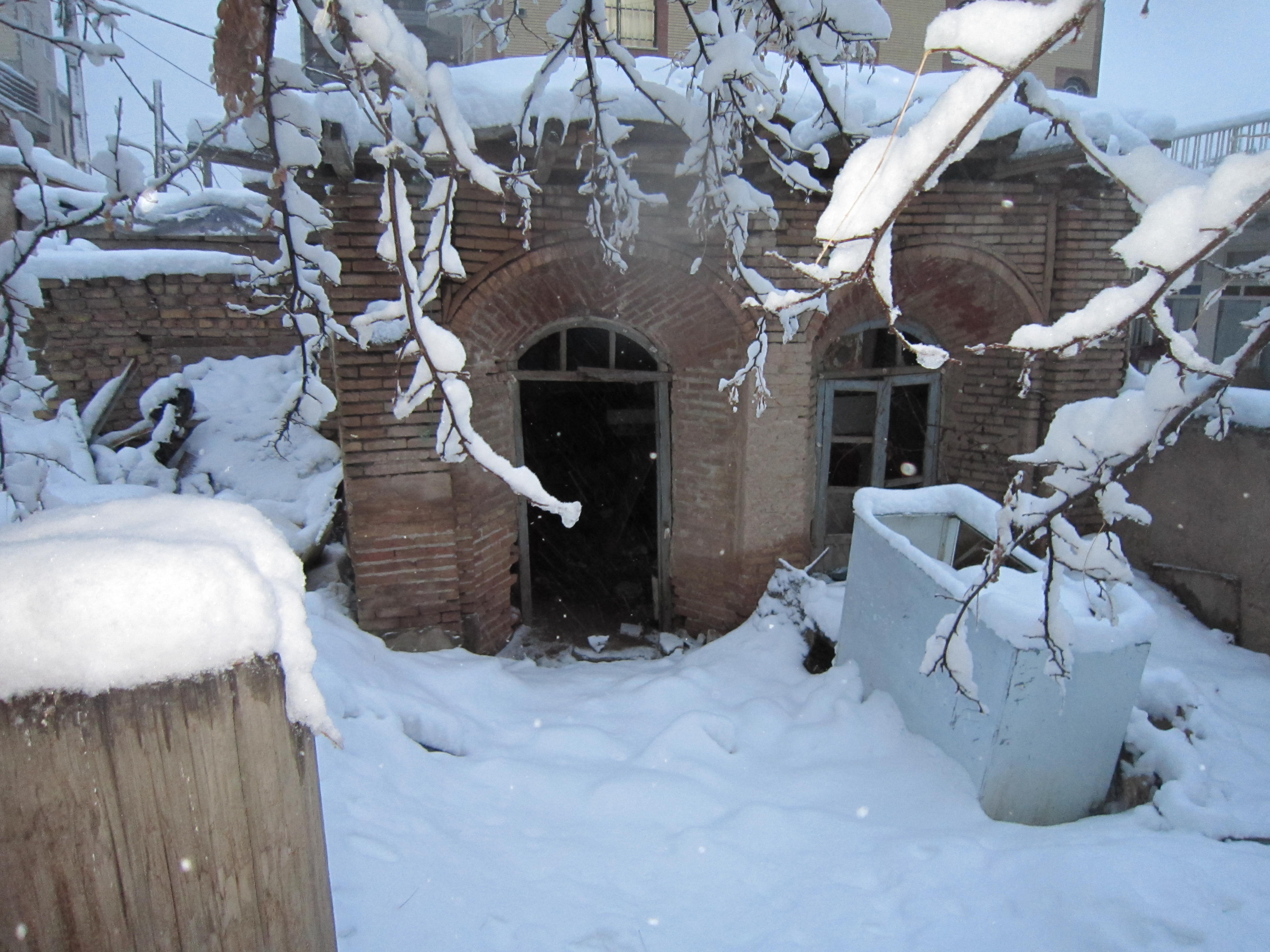 Iranian poet and songwriter house. Aref Qazvini